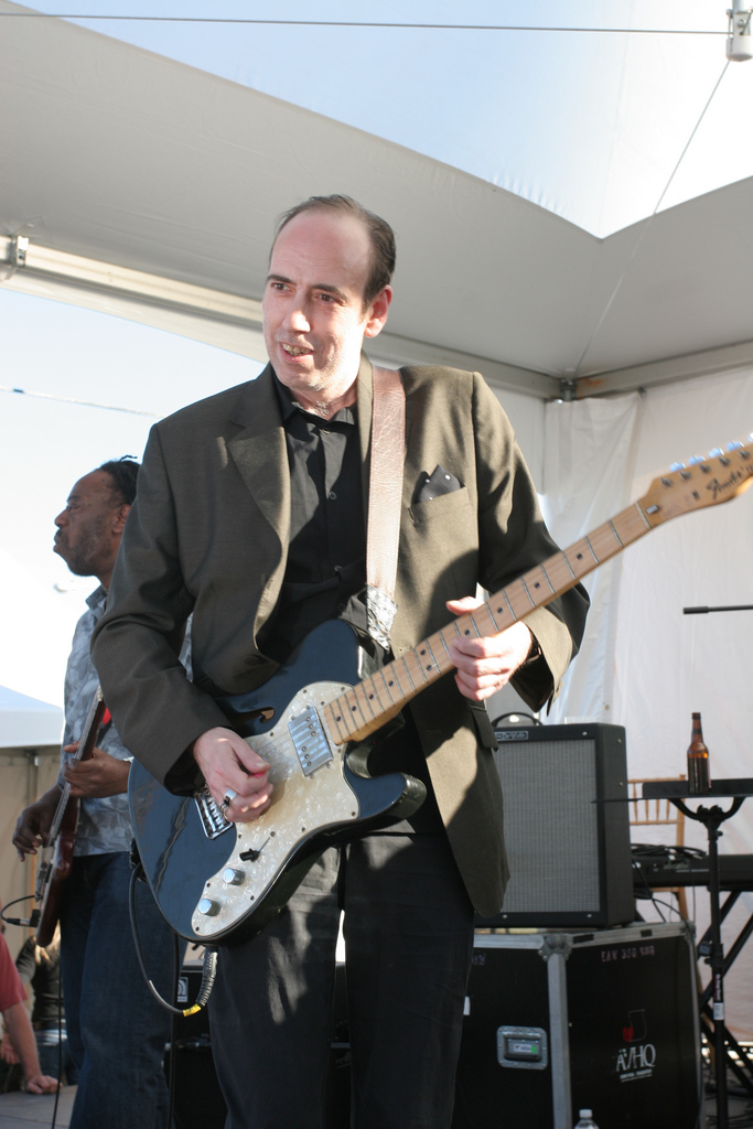 Mick Jones at SXSW08